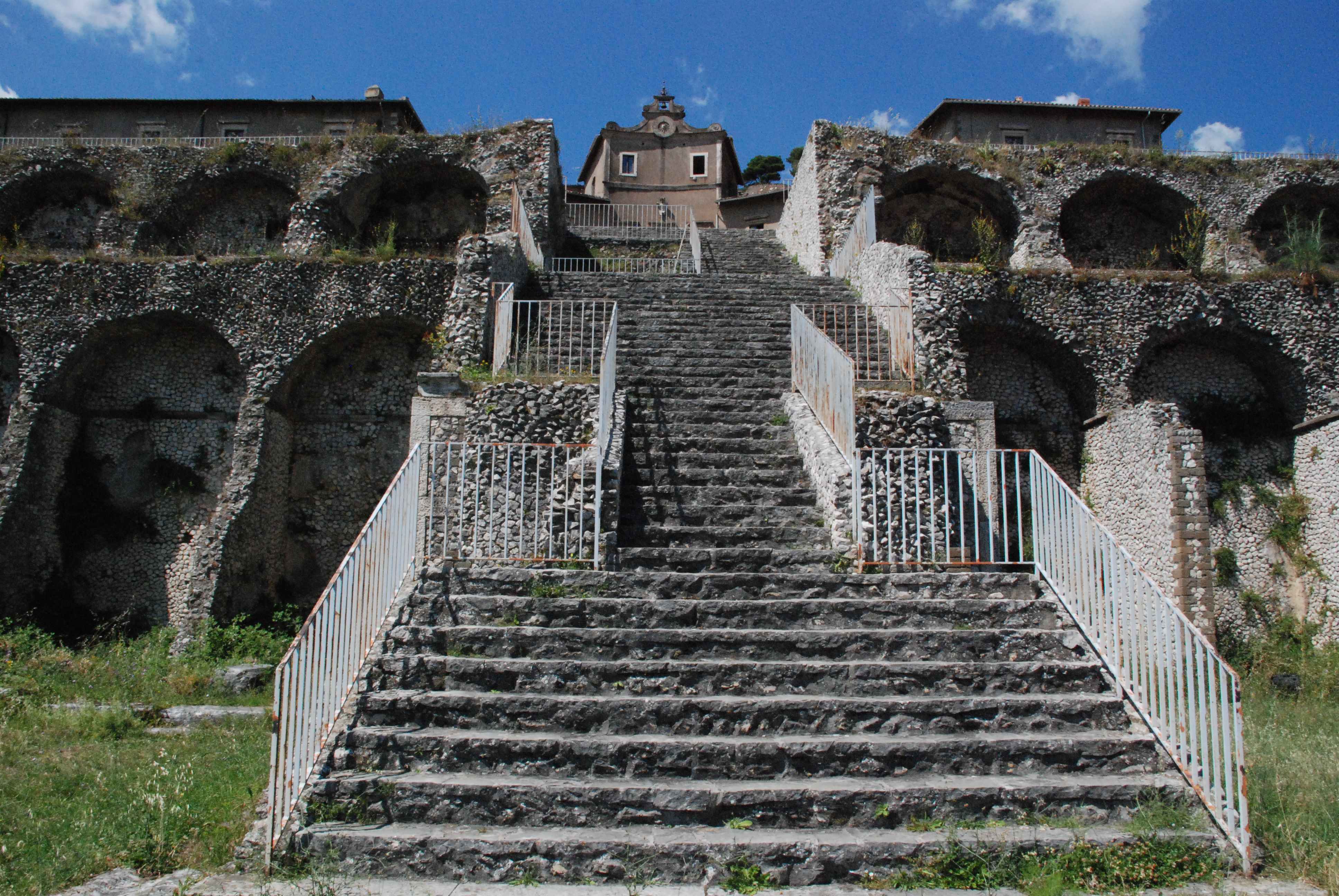 Sanctuary of Fortuna Primigenia and The National Archeological Museum Of Palestrina